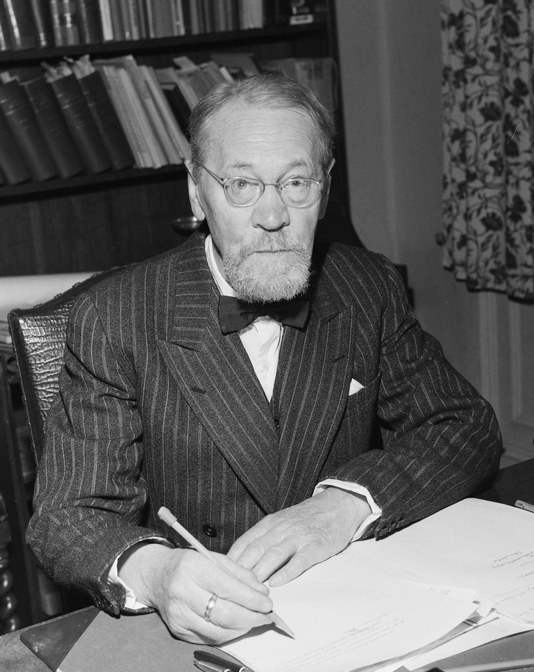 Adolf Hoel was a Norwegian geologist and polar researcher.